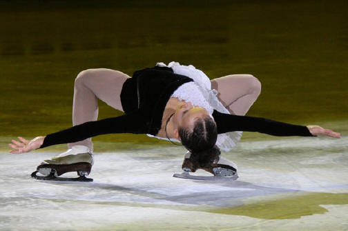 Lubov Iliushechkina (RUS) performs a solo cantilever during her and partner Nodari Maisuradze's exhibition program at the 2008-2009 Junior Grand Prix Final. Lubov Iliushechkina and Nodari Maisuradze won the pairs gold medal.